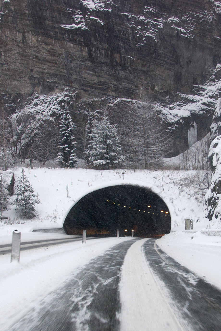 Brattås tunnel on E18 in Porsgrunn, Telemark, Norway